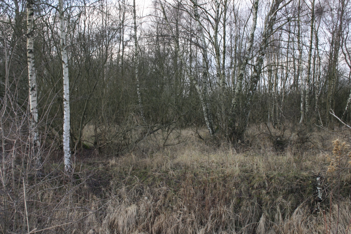 Self-grown birch forest on Amager Fælled (former commons now becoming a public park)